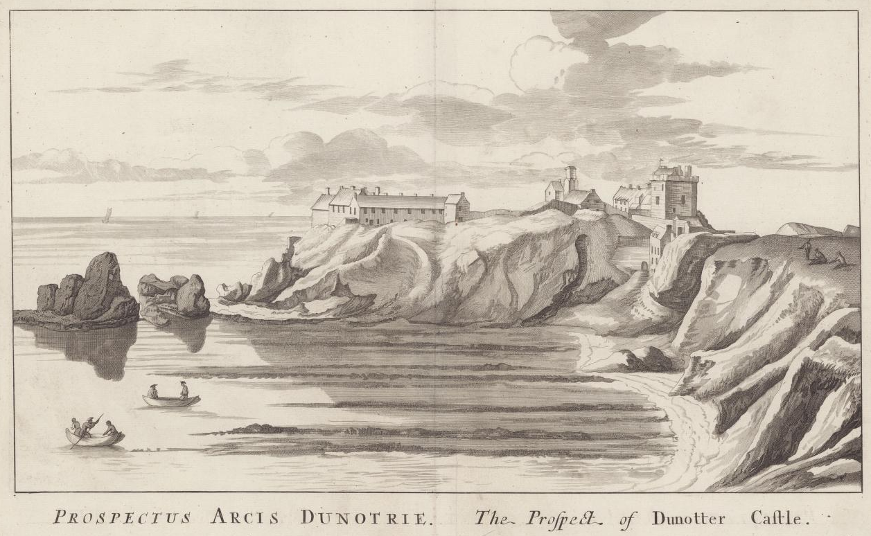 Engraving of Dunnottar Castle by John Slezer